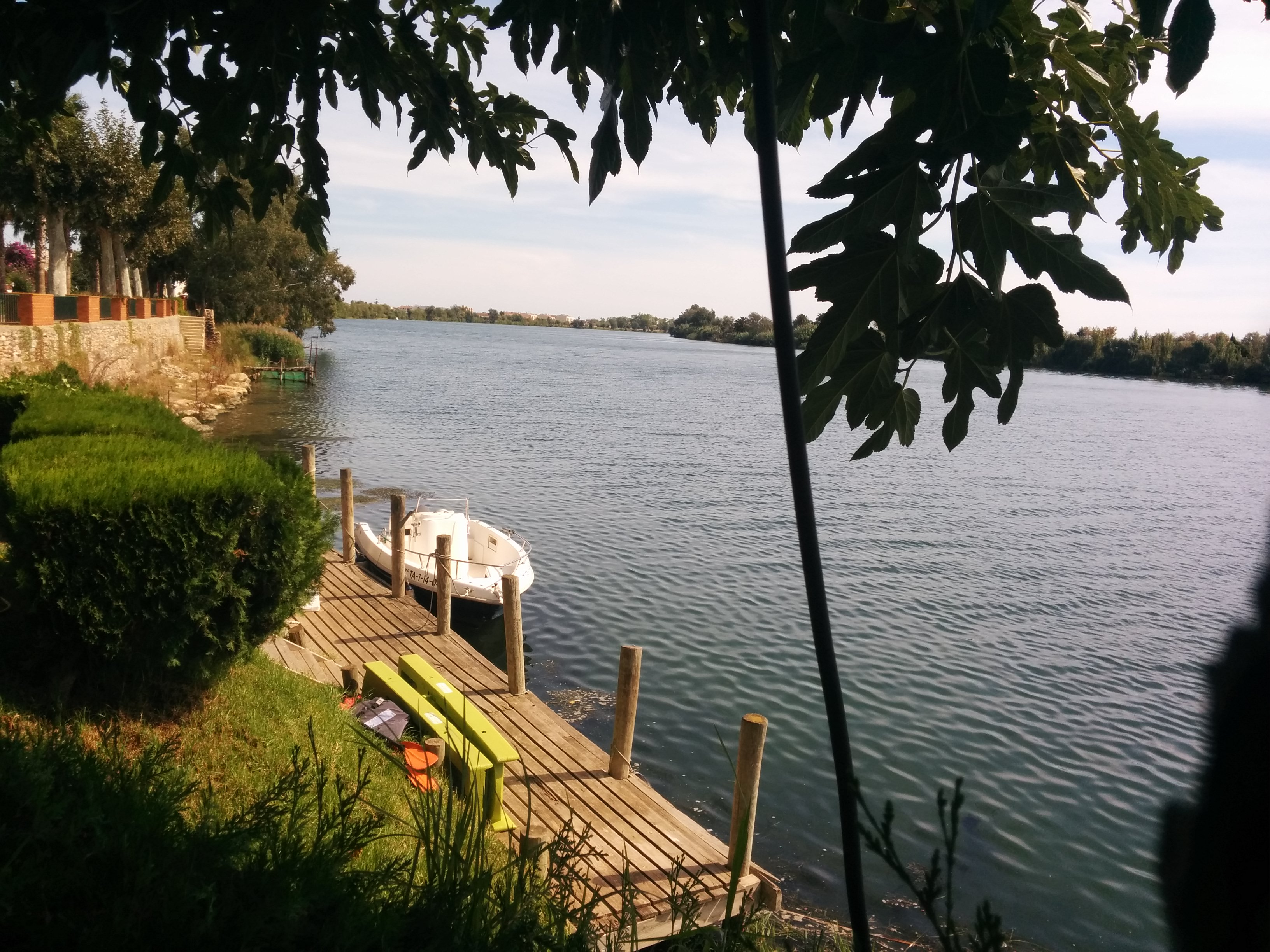 Jesus i Maria is a small village on the River Ebre's detla to the Med called Delta Del Ebro